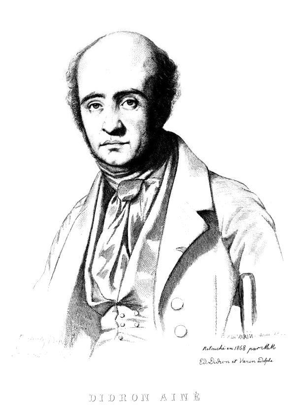 An engraving of Adolphe Napoléon Didron (1806-1867) French archaeologist, published in Annales Archéologique, vol. 25 (1865), p.376a.